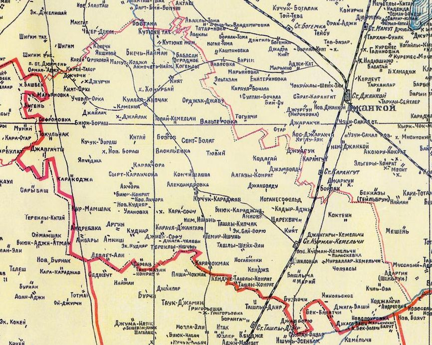 Kurmanskiy district, Crimea. 1922.